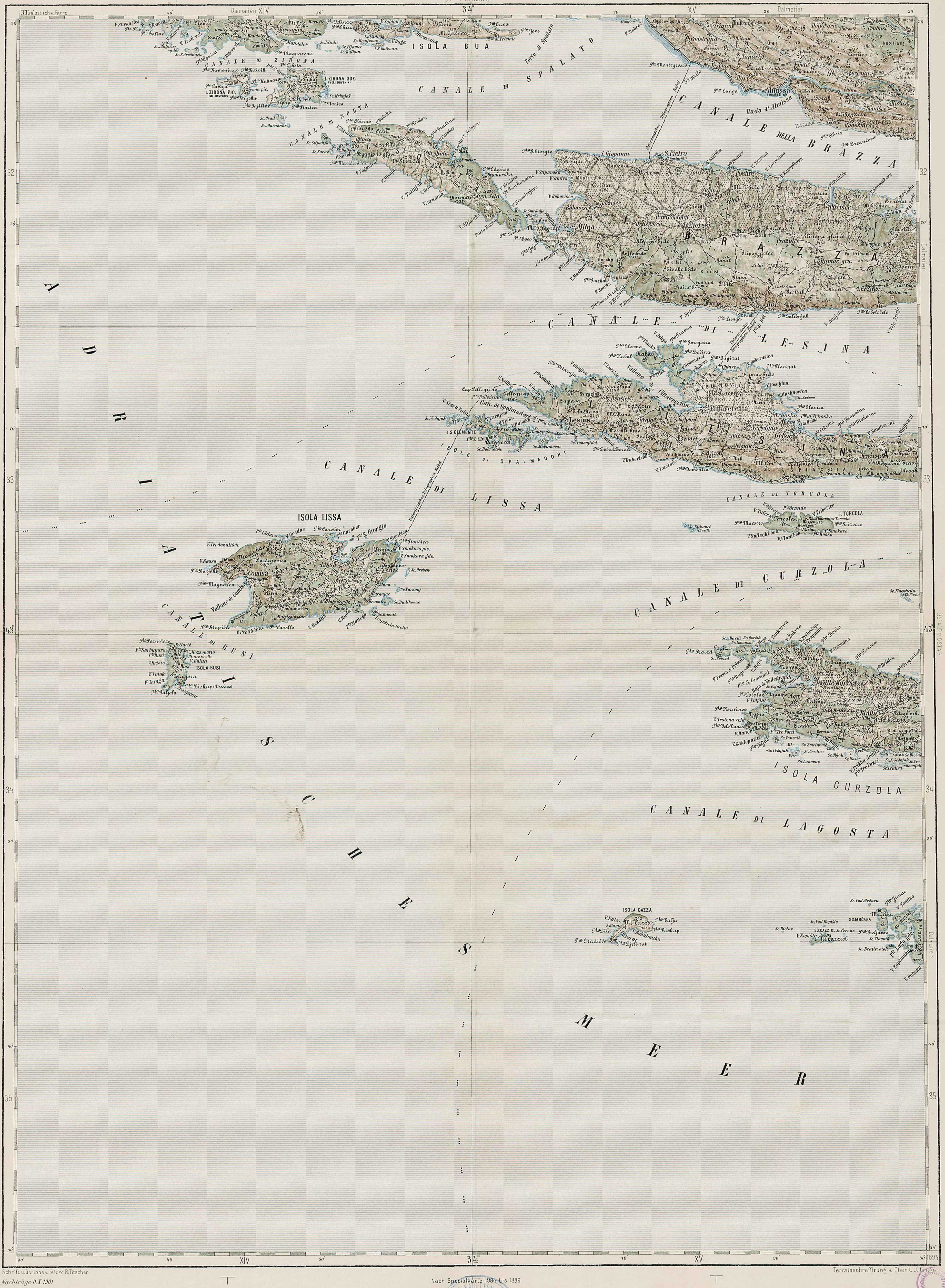 3rd Military Mapping Survey of Austria-Hungary - Lissa